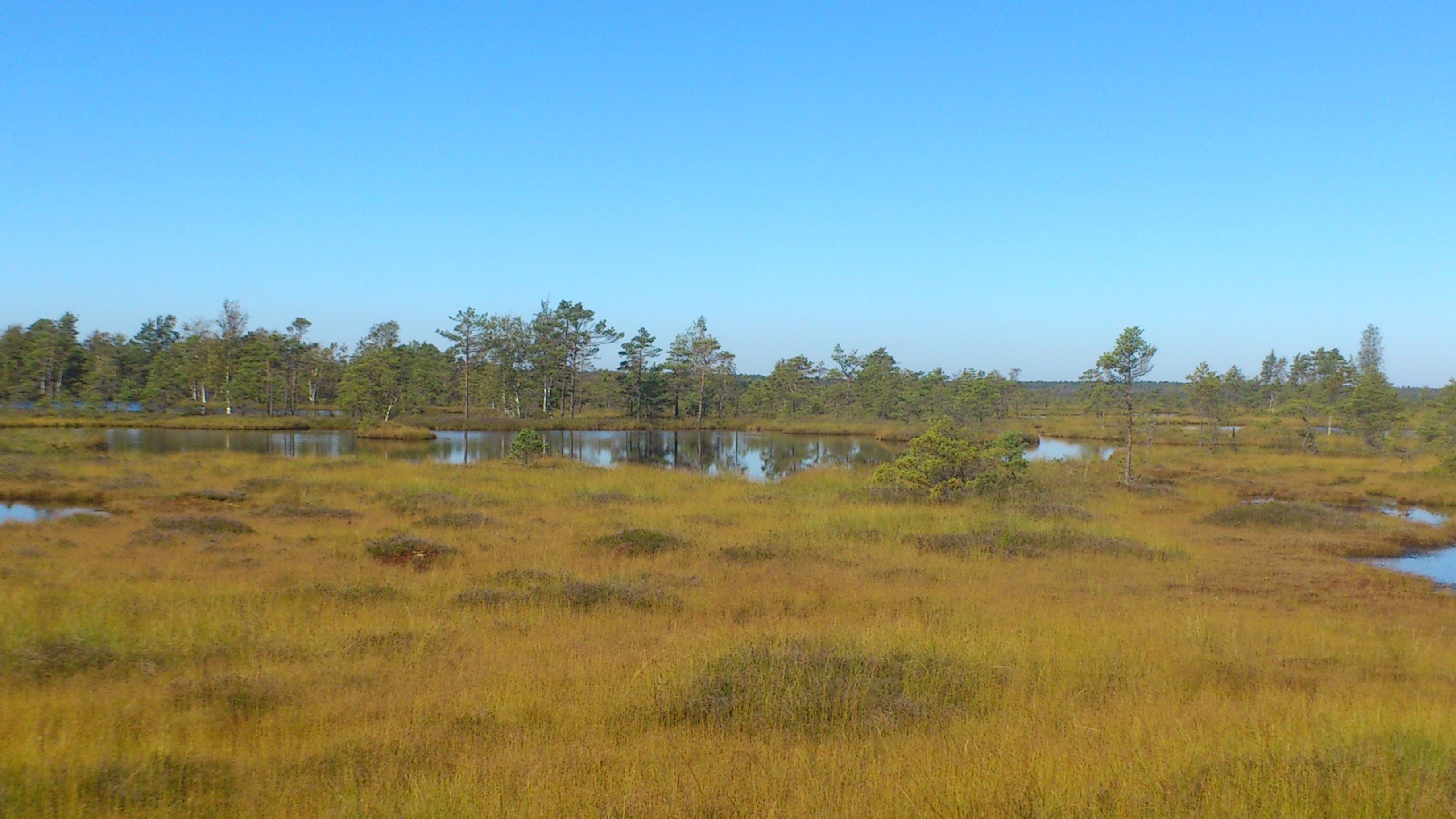 The Dunika nature reserve and swamp trail